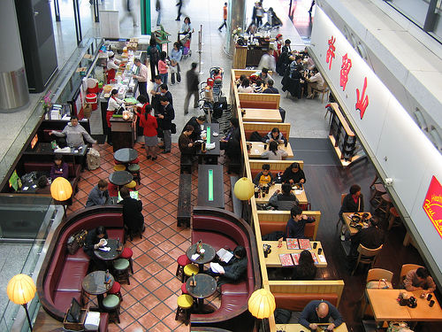 Hong Kong International Airport